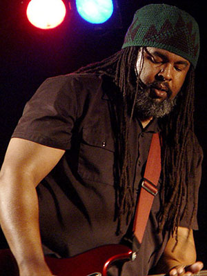 Alvin Youngblood Hart playing at Djurs Blues Festival, Denmark (2009)